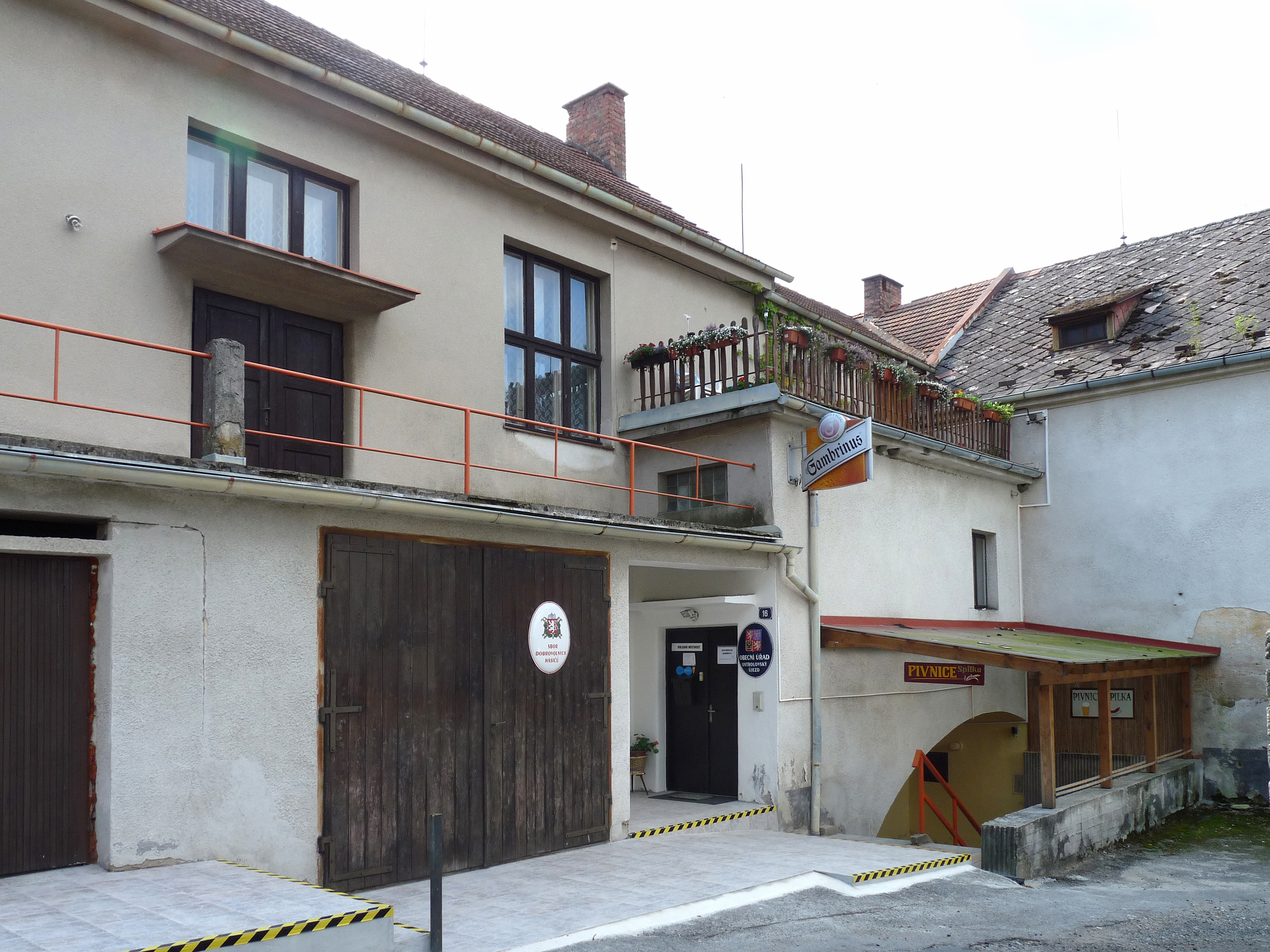 Municipal office building in the village of Ostrolovský Újezd, České Budějovice District, Czech Republic.